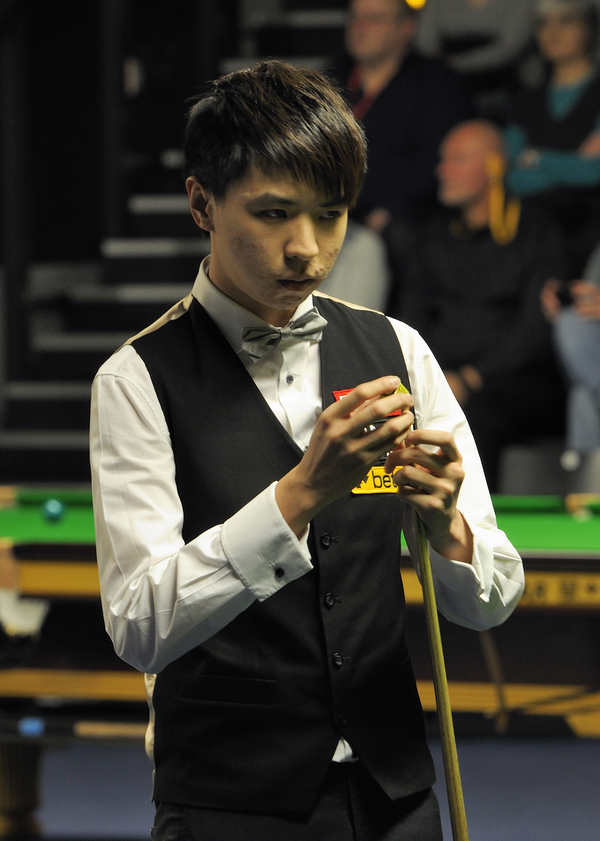 Picture taken in Berlin during the Snooker German Masters in 2013. Xiao Guodong.